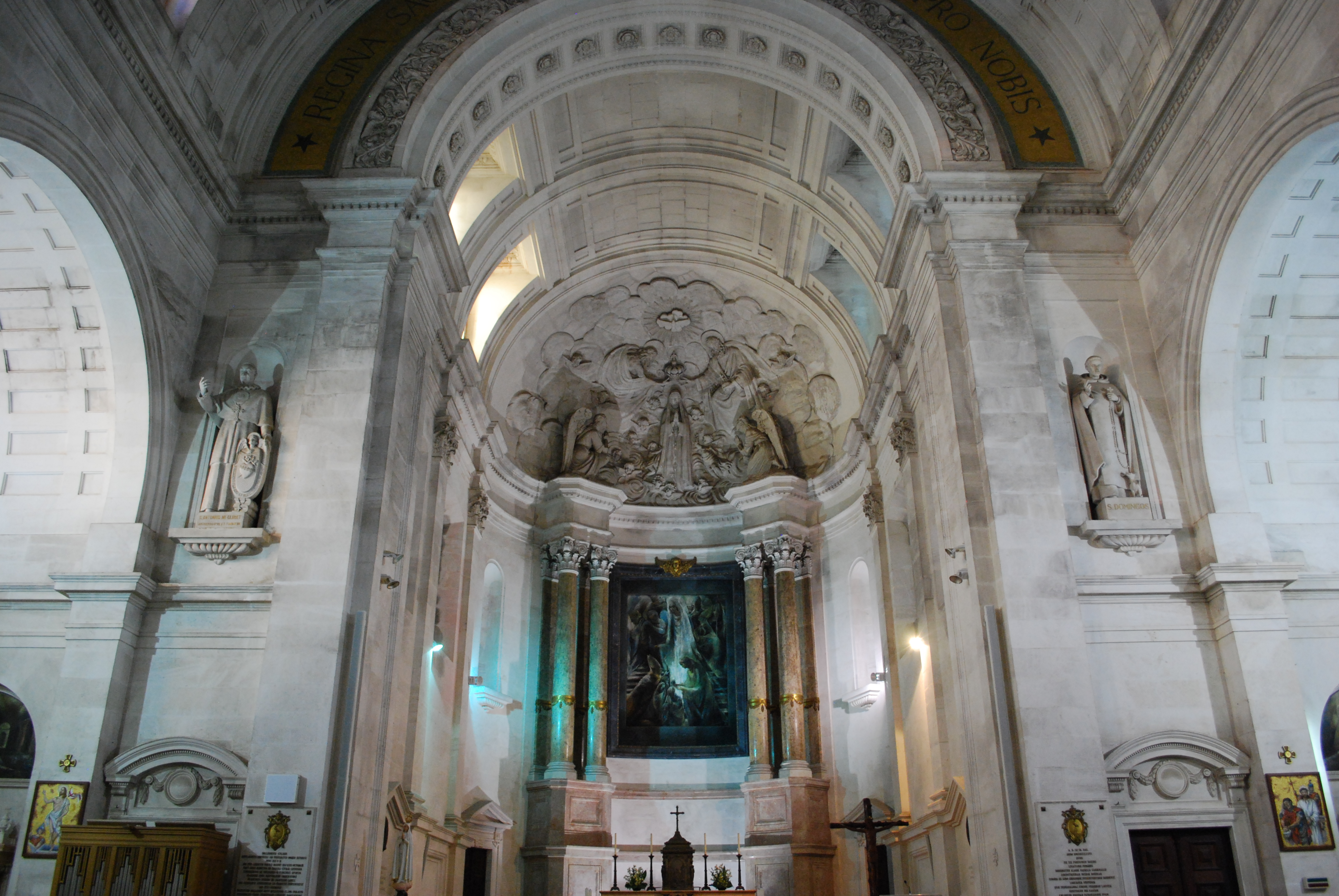 This file was uploaded for Wiki Loves Monuments in Portugal with the unique identifier 97020204.